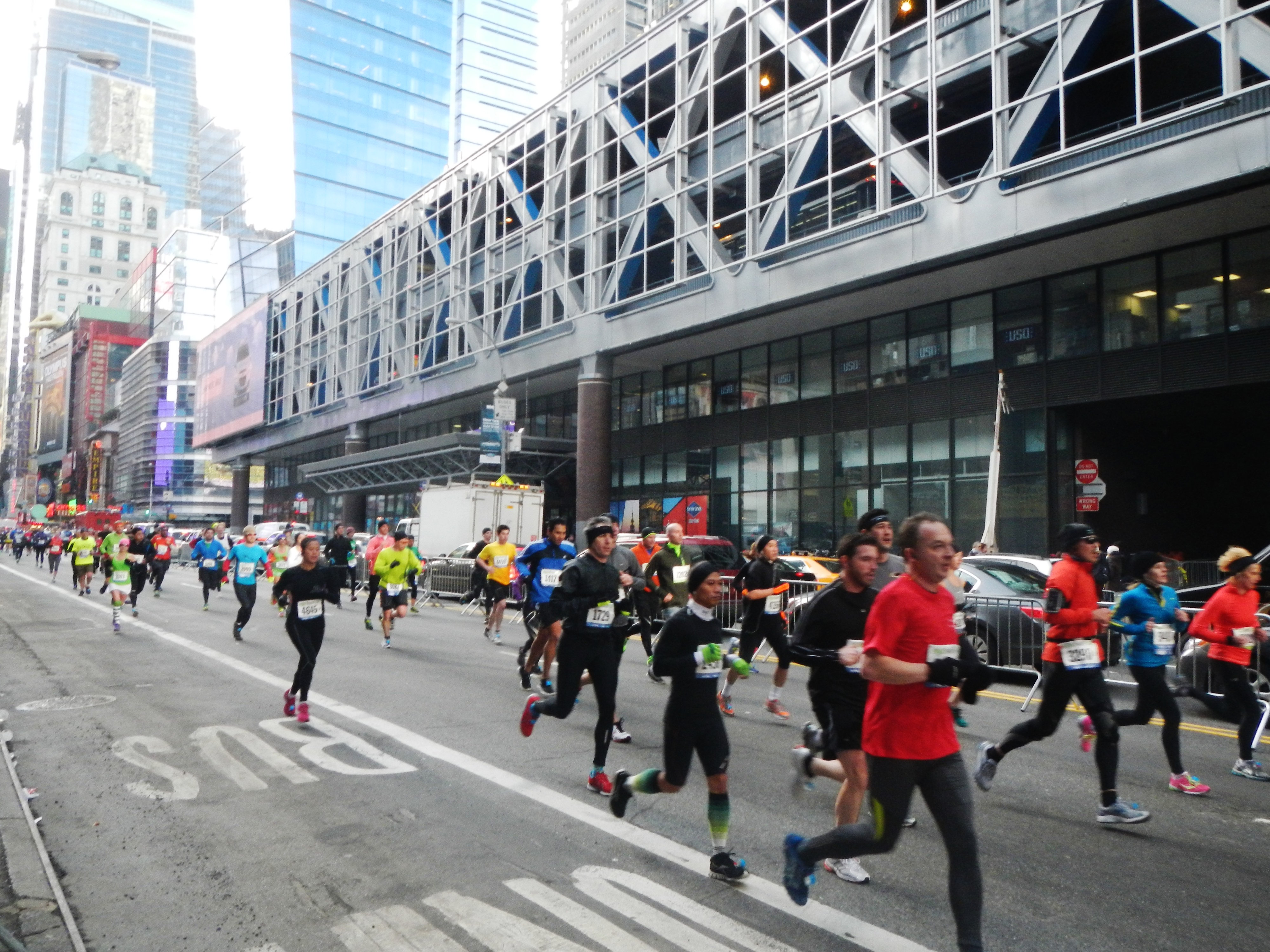 Looking southeast across 42nd at runners passing the bus terminal on a cloudy morning.